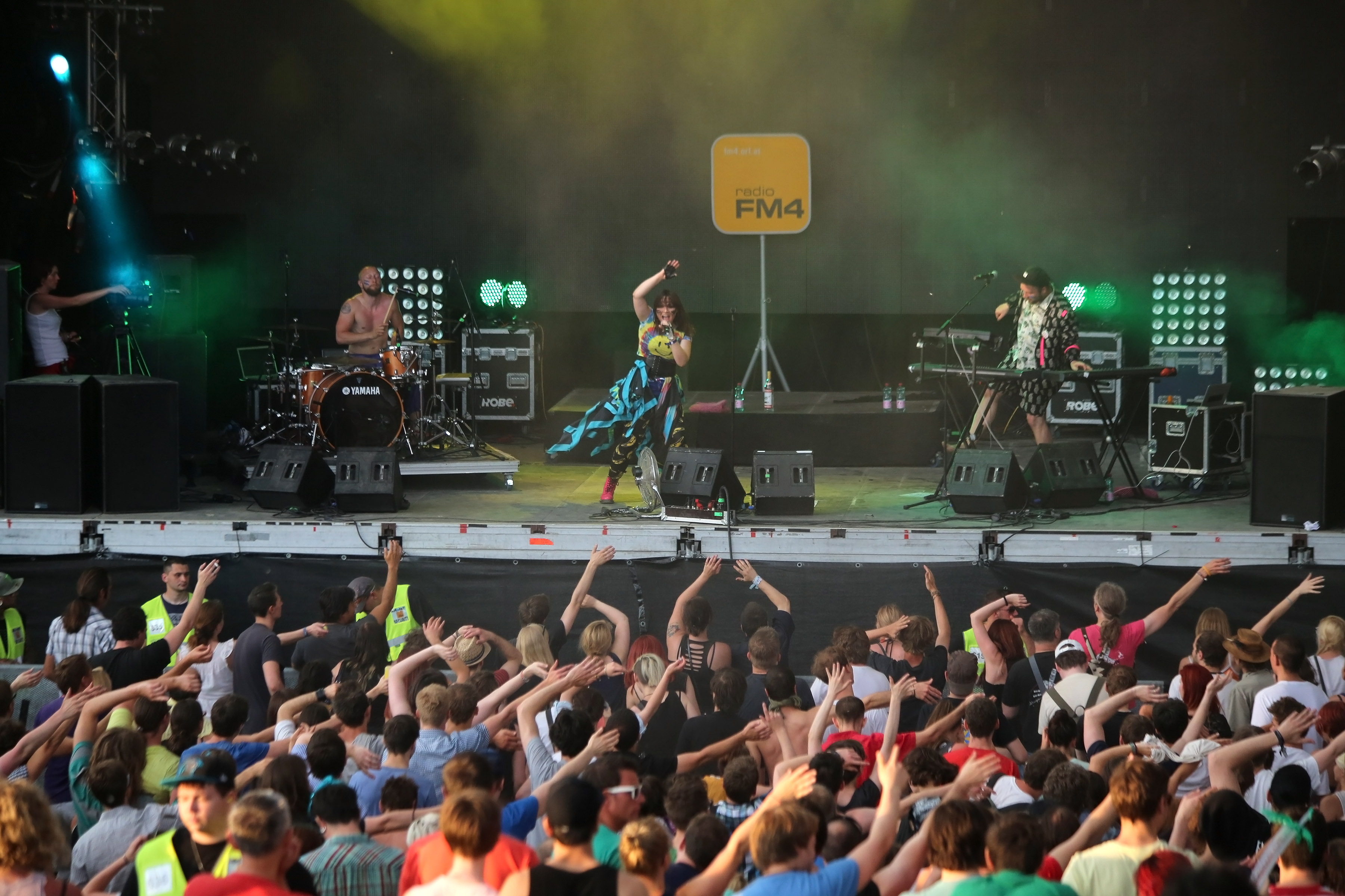 Grossstadtgeflüster - Donauinselfest 2013 in Vienna, Austria